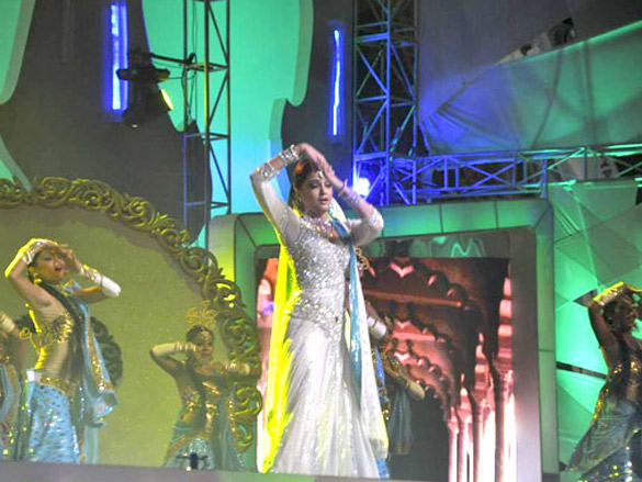 Aishwarya Rai From The 17th Annual Star Screen Awards 2011